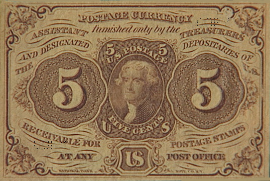 5 cent U.S. Note. Image retrieved 10/15/2006 from